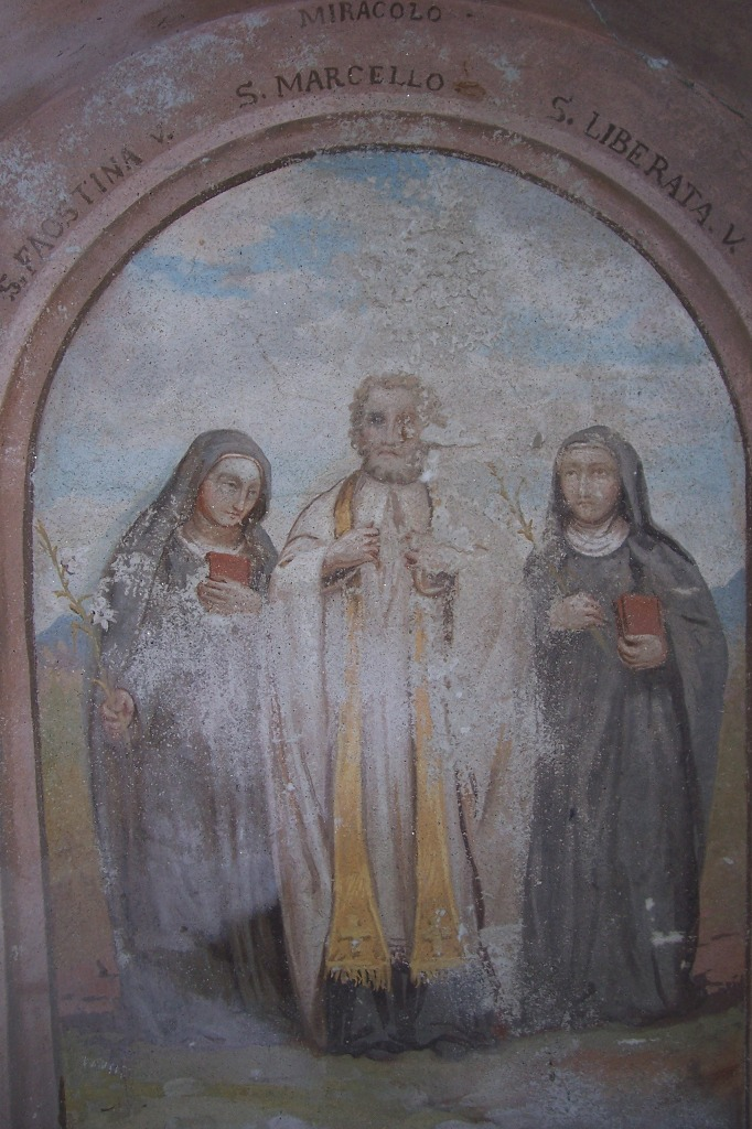 S. Faustina, St Marcello, St Liberata, Church of st Faustina and Liberata, Capo di Ponte, Italia